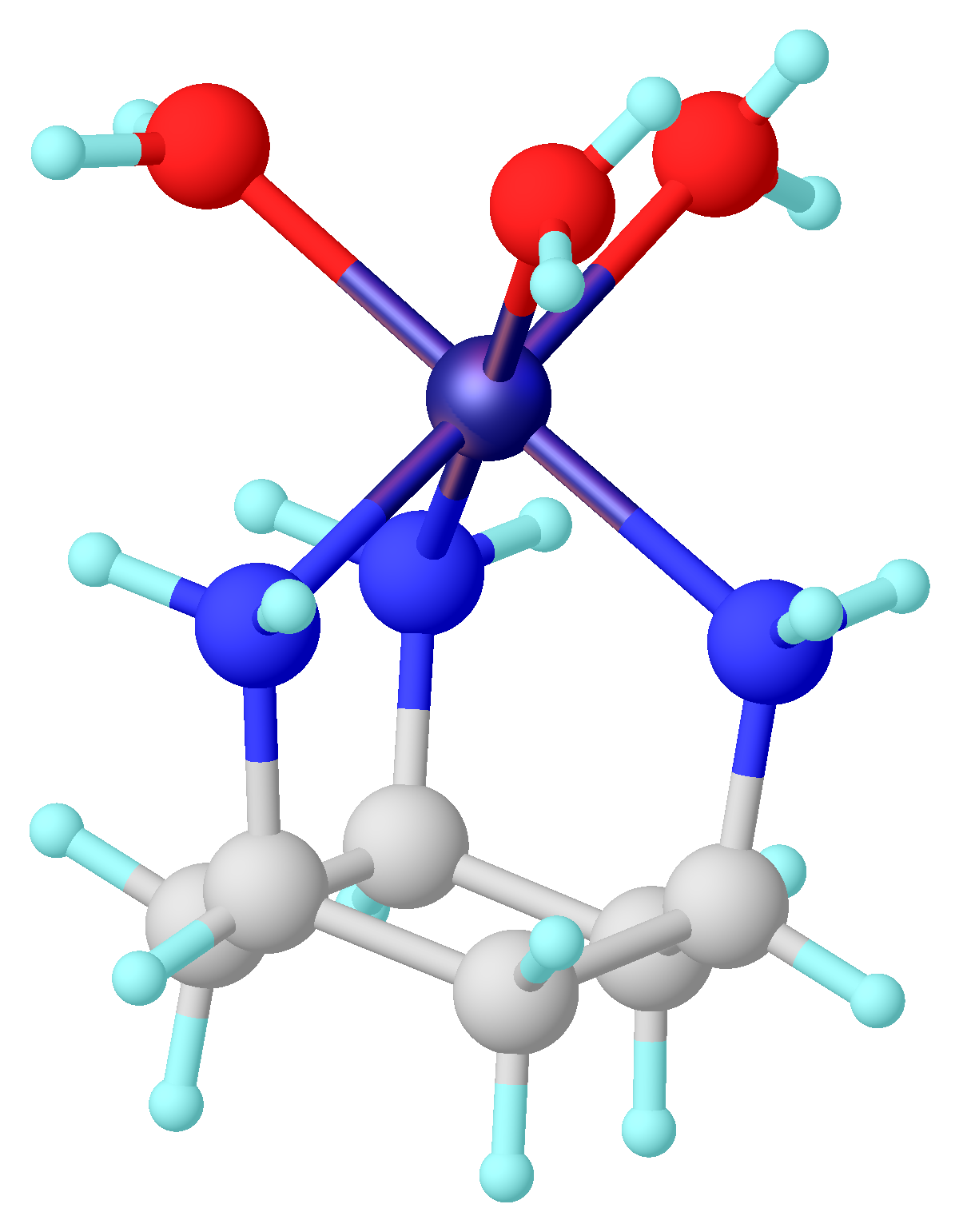 [Ni(TACH)(aq)3]++ from doi 10.1021/ic00168a042